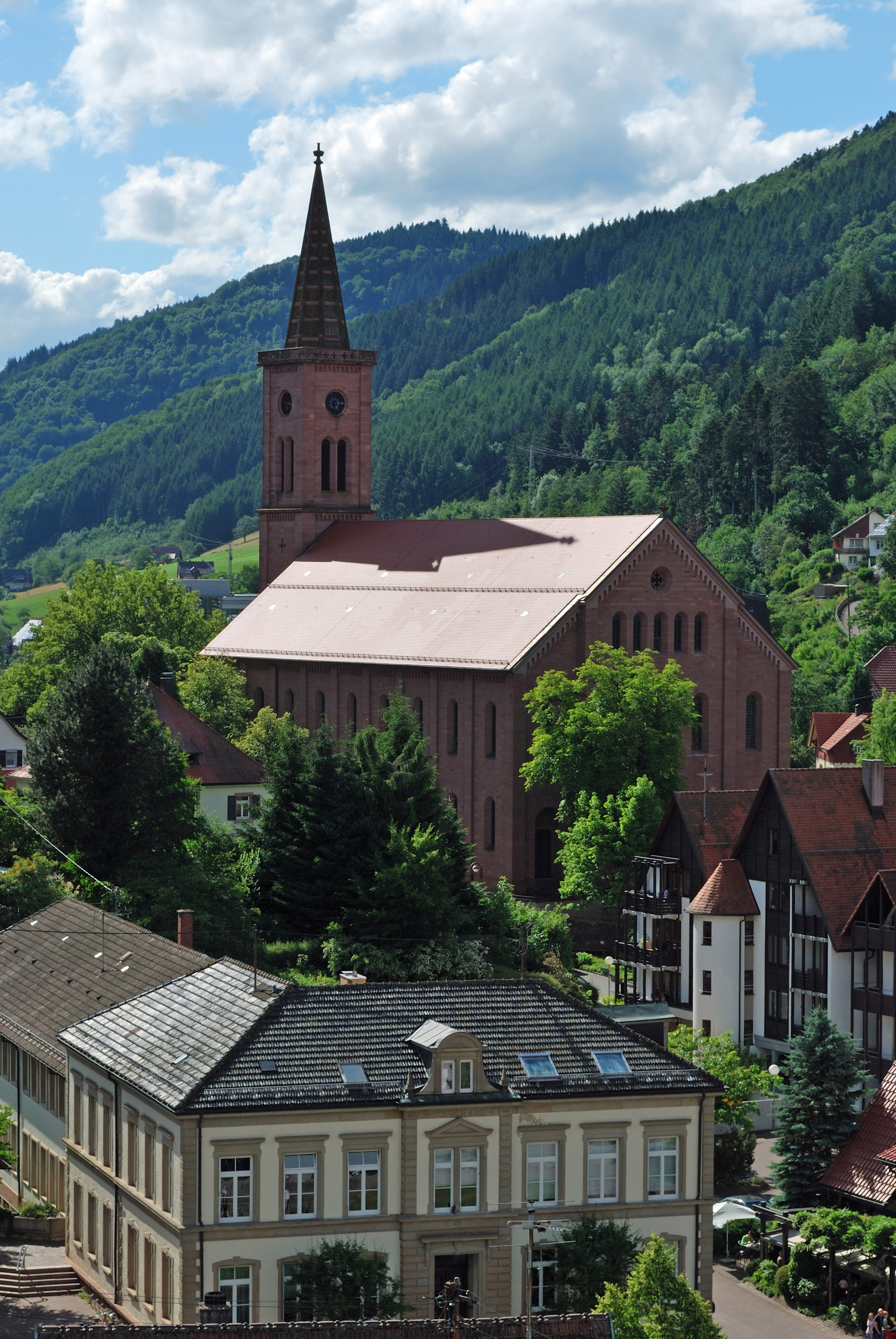 The protestant church in Schiltach in the Black Forest in Germany.